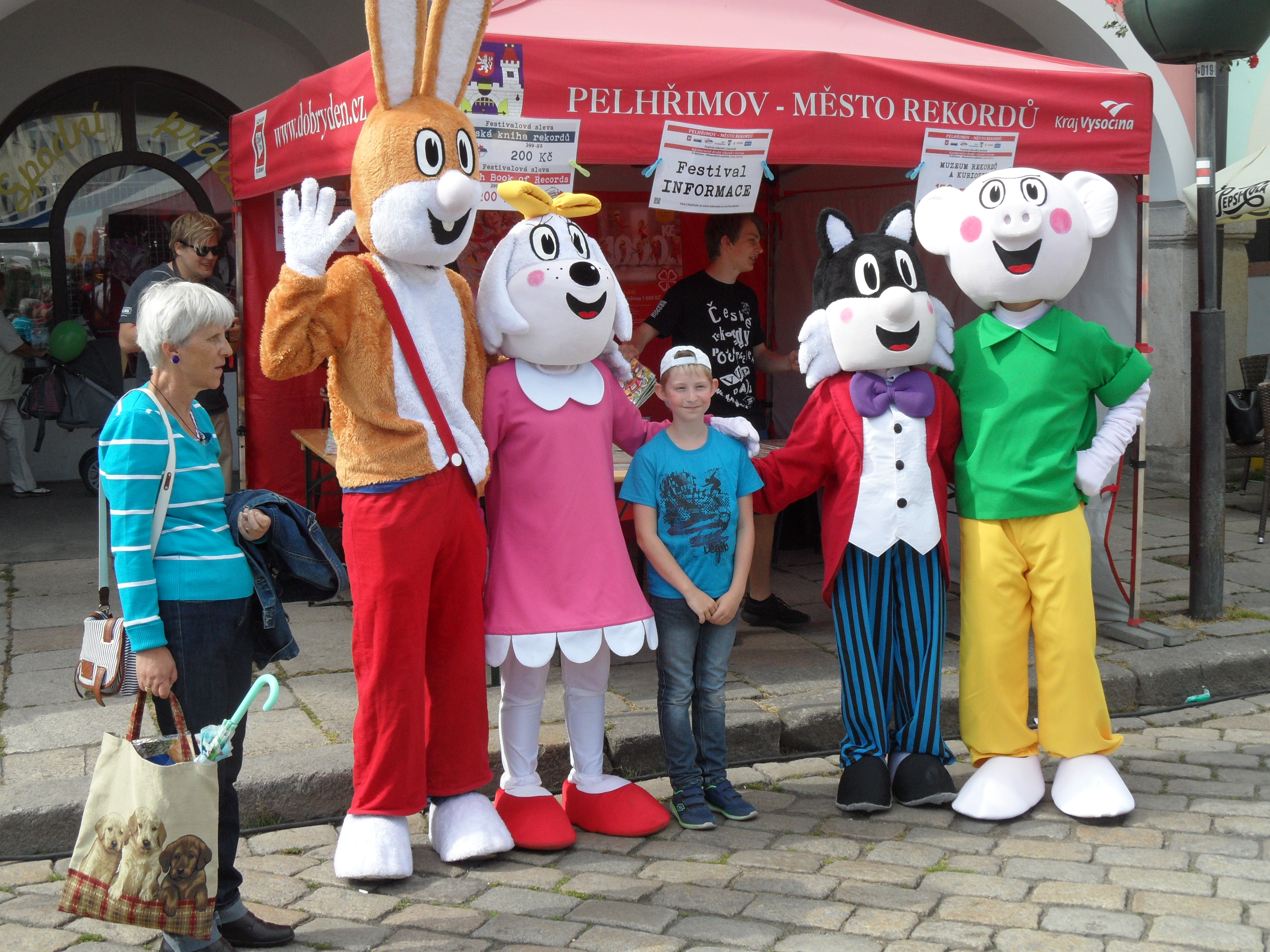 Festival Pelhřimov – the City of Records 2017, Afternoon Programme: Childrens with Čtyřlístek (Four Leaf Clover): 48th Aniversary. Pelhřimov District, the Czech Republic.